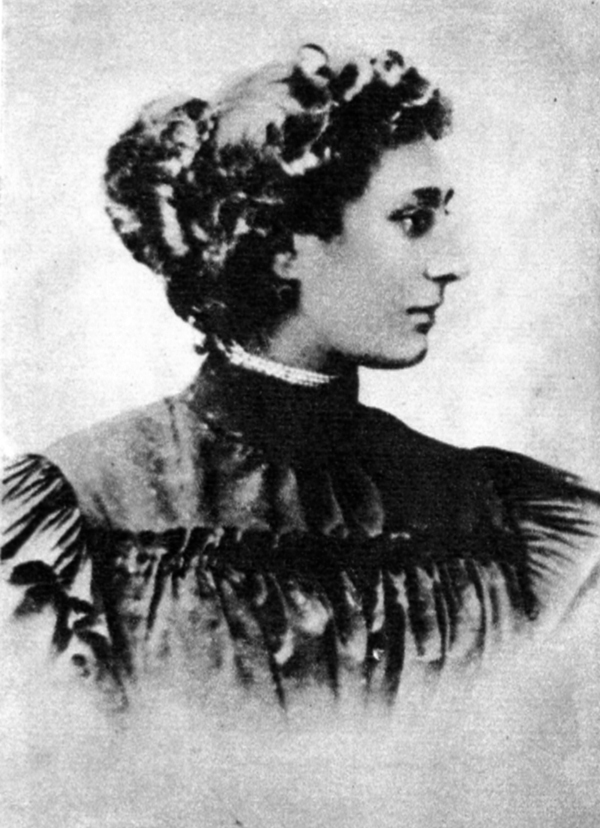 Photo of Maria Moravskaya, Russian poet (1890-1947 or later)